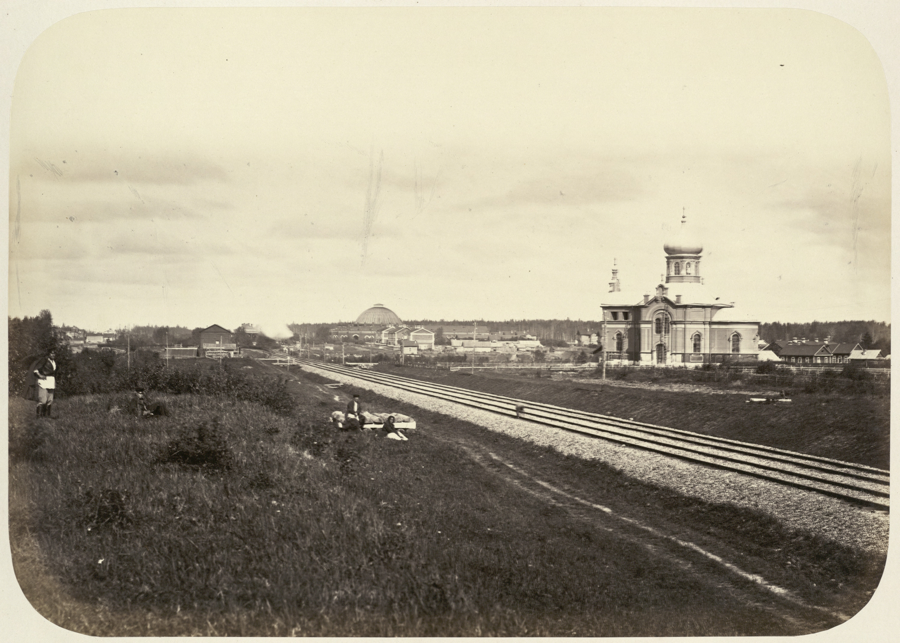 Railway station Malaya Vishera, Roundhouse, Church